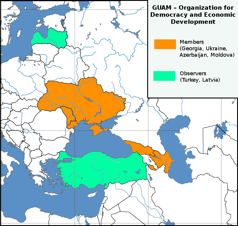 GUAM member and observer states